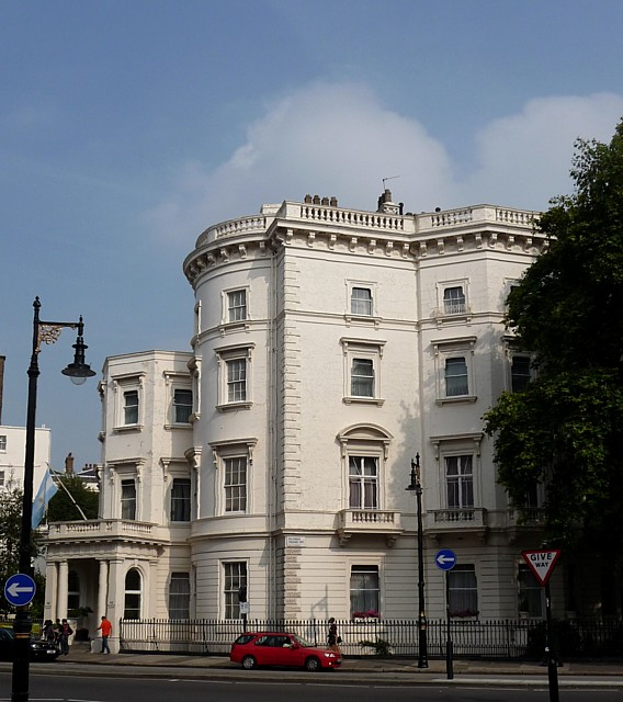 49 Belgrave Square No. 49 was designed by Thomas Cubitt (who was behind the development of much of Belgravia) for Sidney Herbert in c1851. The octagonal porch was added by Mayhew and Knight in 1859. Grade II* listed. It is now the Argentine Embassy. The square was laid out from around 1826, with a detached mansion sited at each of the other three corners.